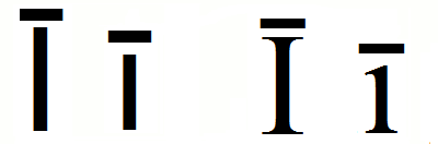 The Latvian letters Ī and ī